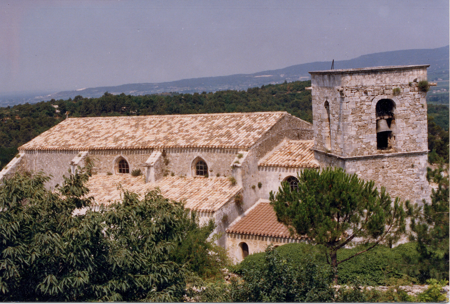 Ménerbes church, France